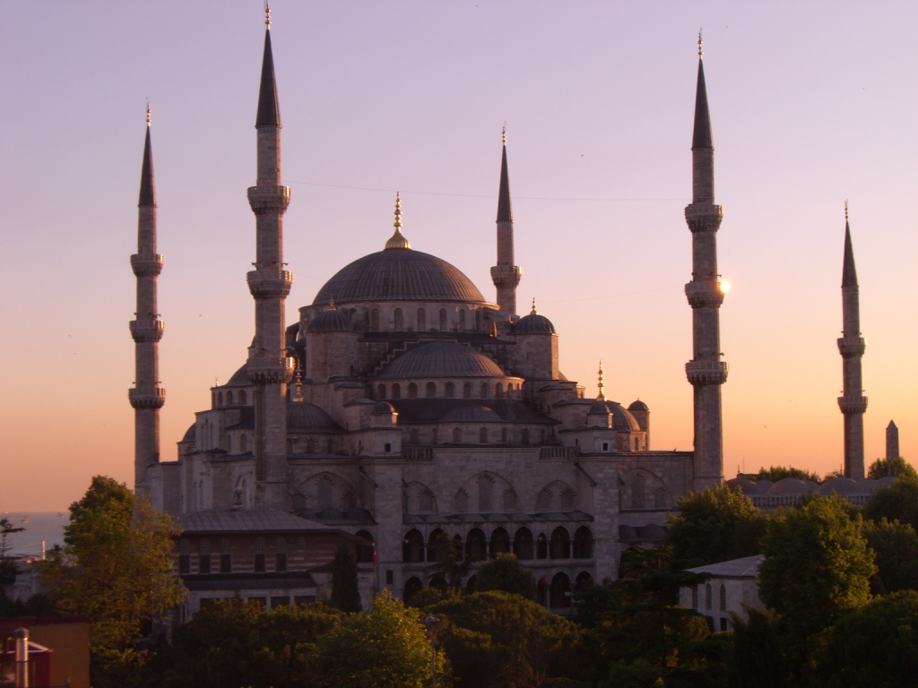 The Sultan Ahmed Mosque in Istambul at dusk